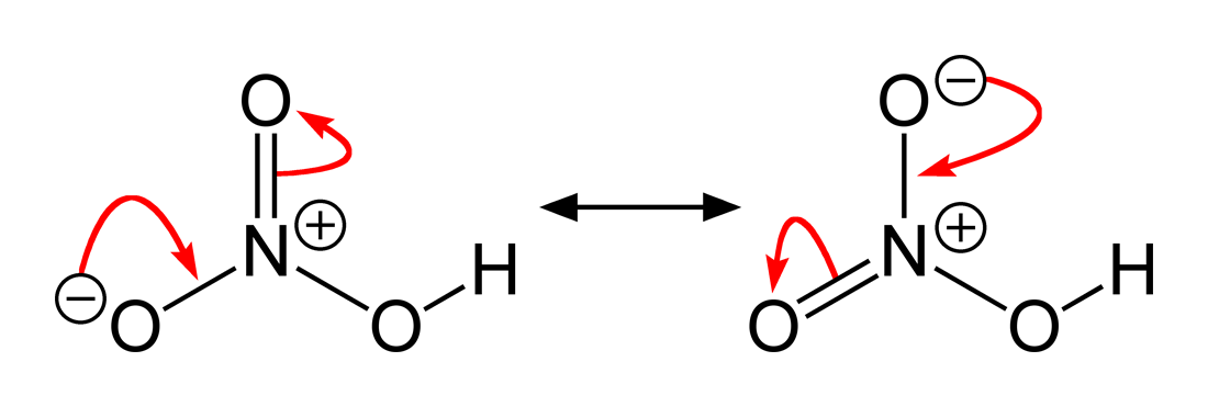 Resonance description of the bonding in the nitric acid molecule